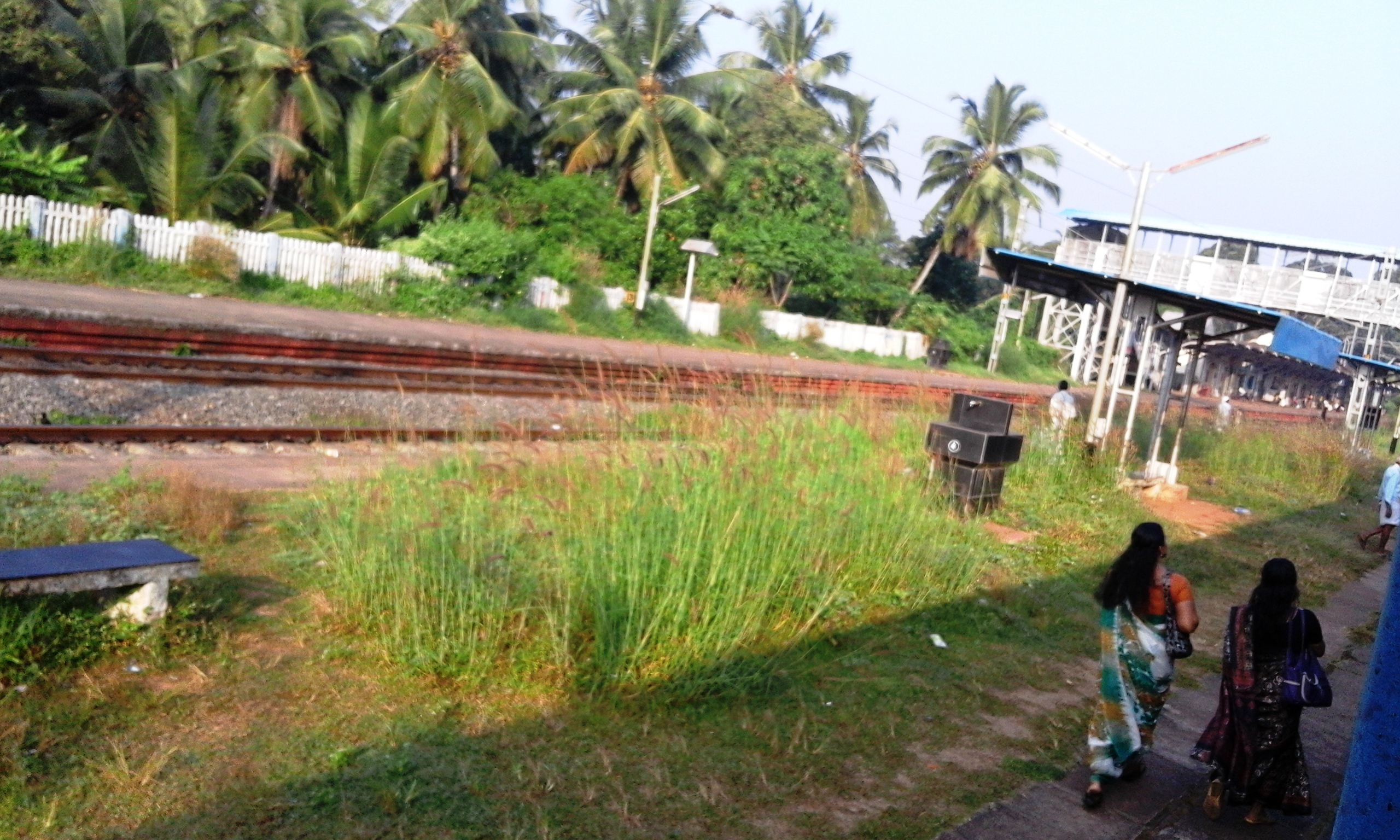 Tanur, Kerala, India.